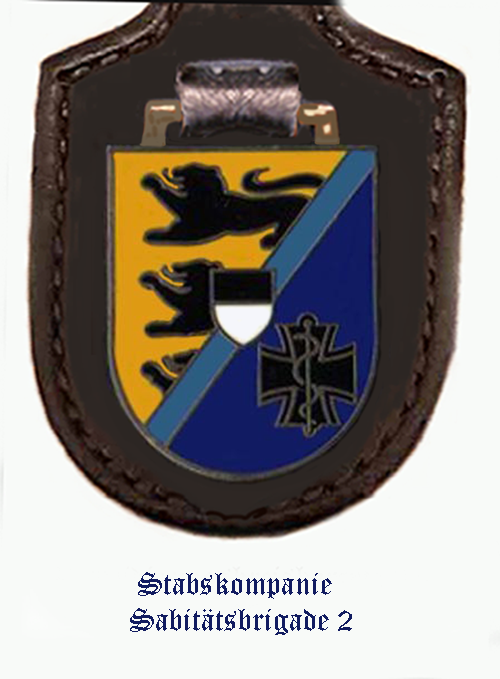 HQ Company 2nd Medical Brigade